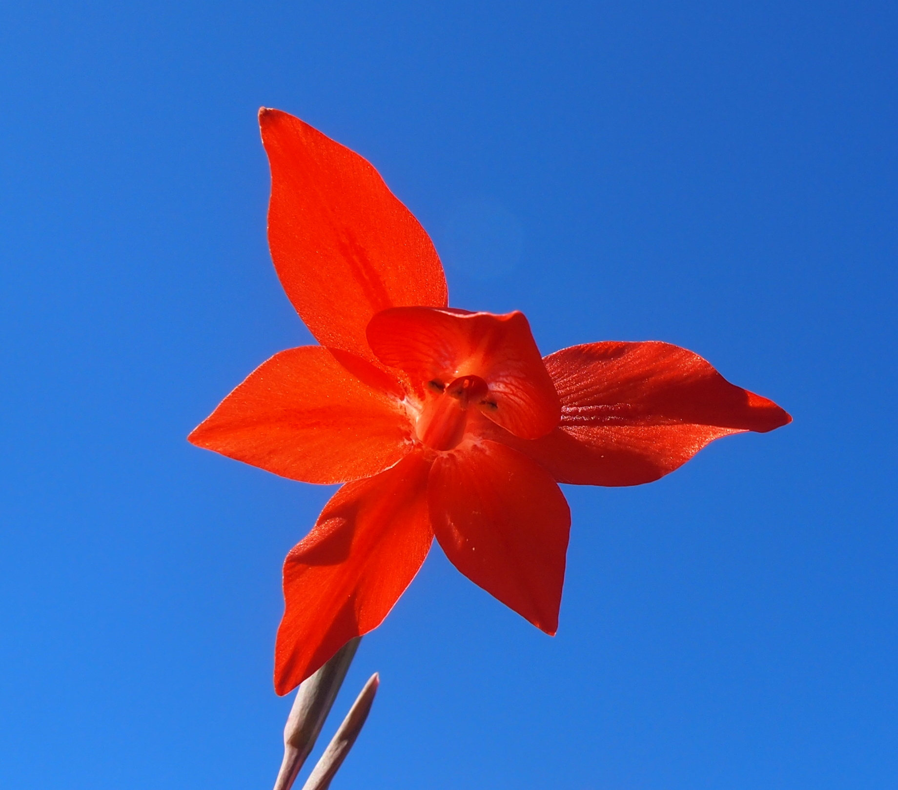 Rooi Afrikaner, Signal Hill, Cape Town